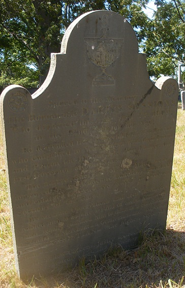 Grave marker for Darius Sessions, colonial deputy governor of Rhode Island, North Burial Ground, Providence